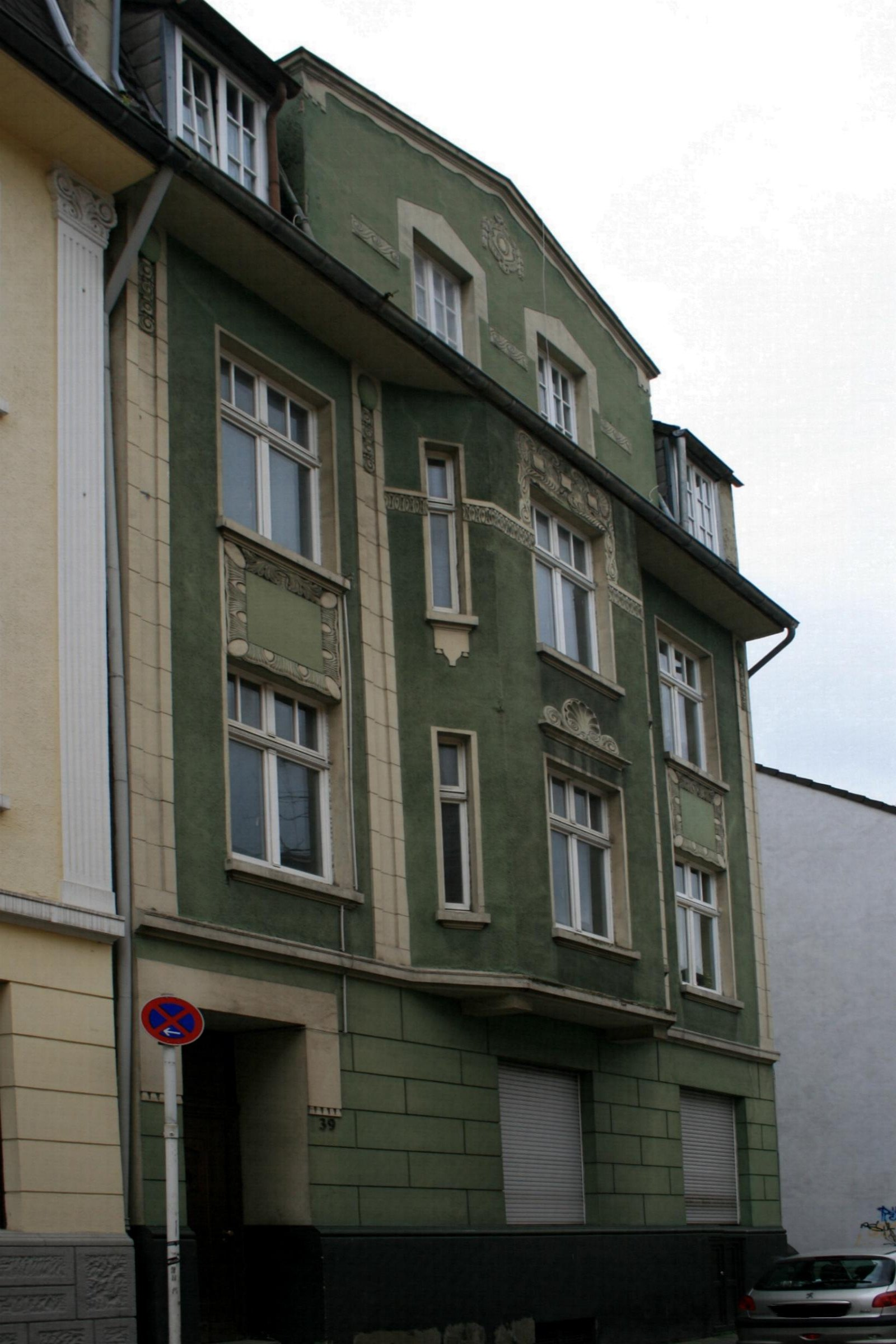 Cultural heritage monument No. G 033 in Mönchengladbach